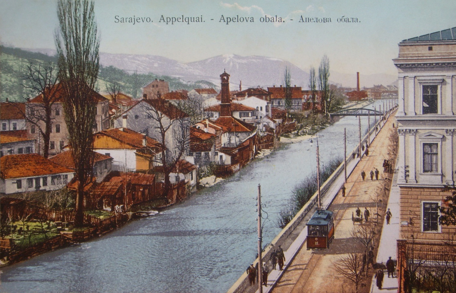 Sarajevo during Austro-Hungarian rule